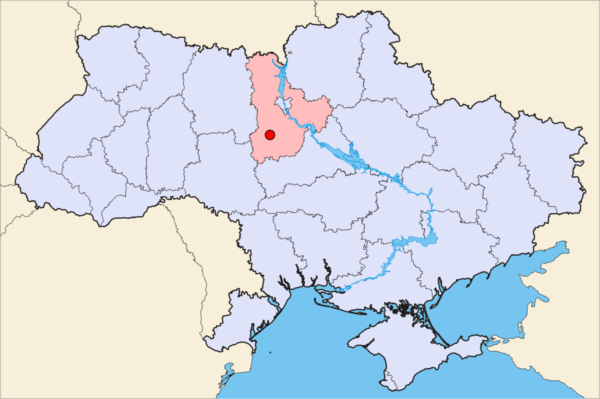 Description = Bila Tserkva geographical position Source = own work, Skluesener Date = 20.01.2006 Author = Skluesener Credits = Colours chosen according to a map of steschke